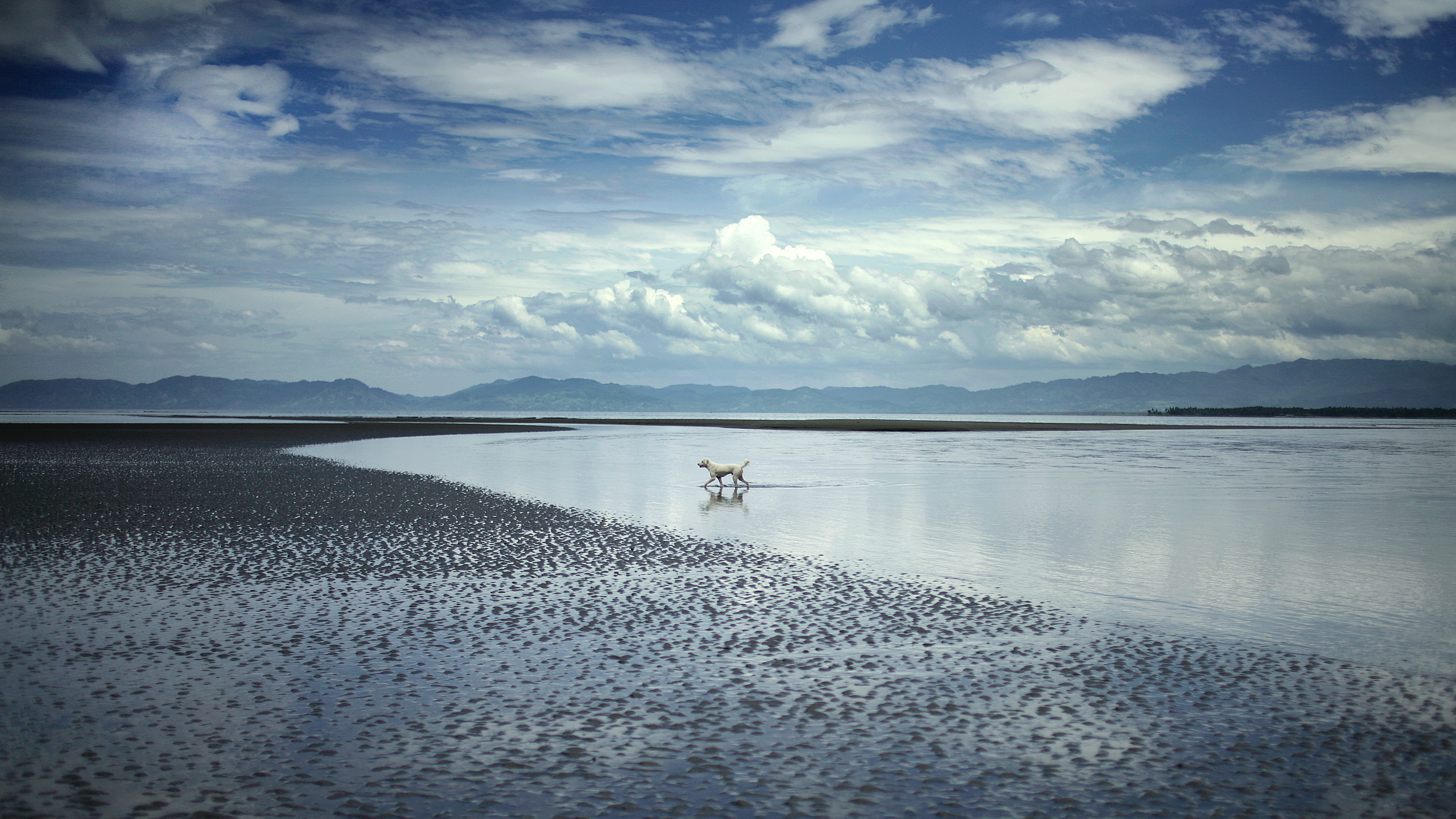 Low tide on a Mindanao beach, Philippines: sunset is approaching and a dog is roaming around searching for food